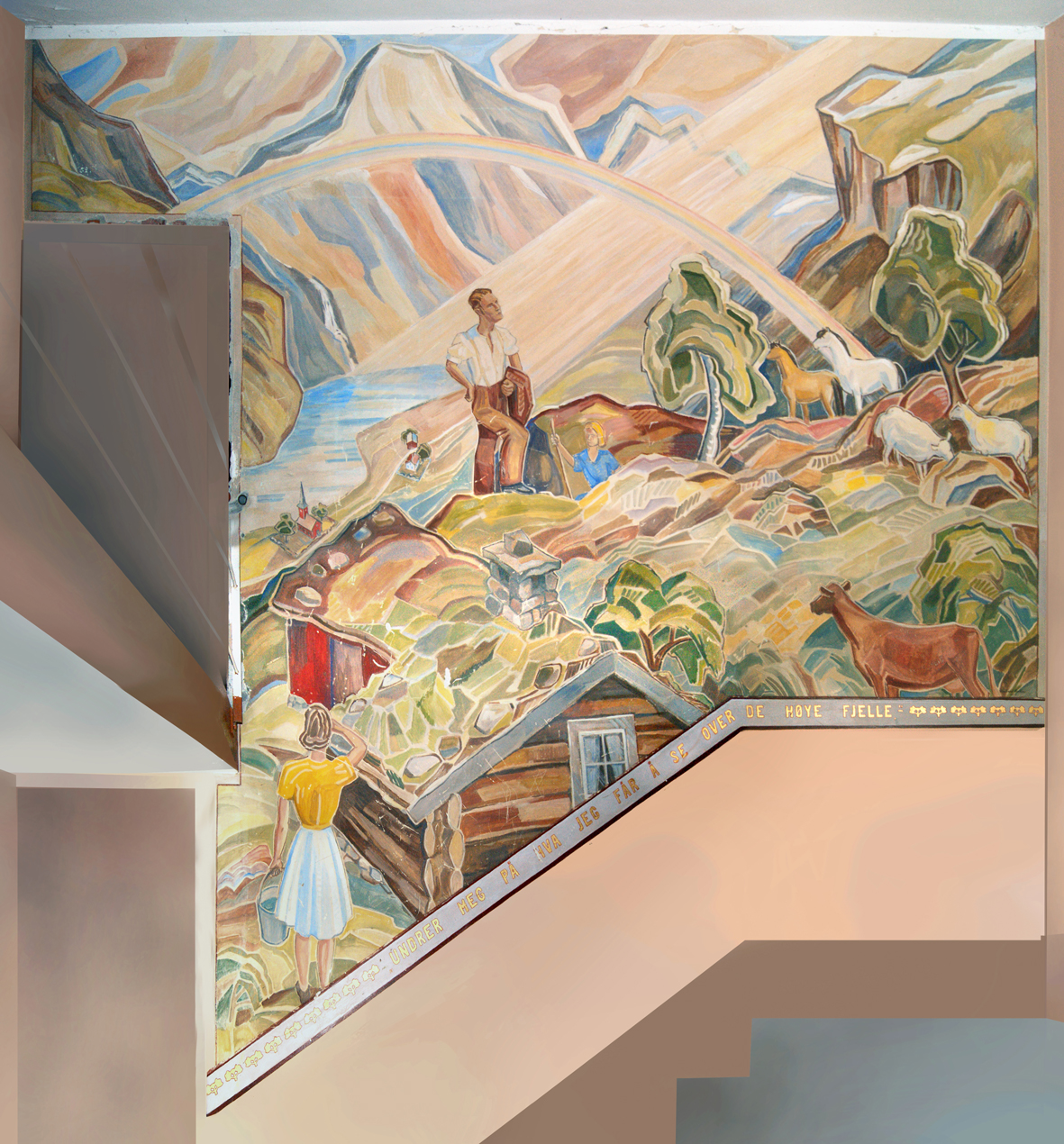 The Storm Waaler wall-decoration of the Norwegian visual artist Halvard Hatlen (1899-1957) The picture is taken just before demolishing of the building, Image is edited by the photographer: Halvard Hatlen (grandchildren)